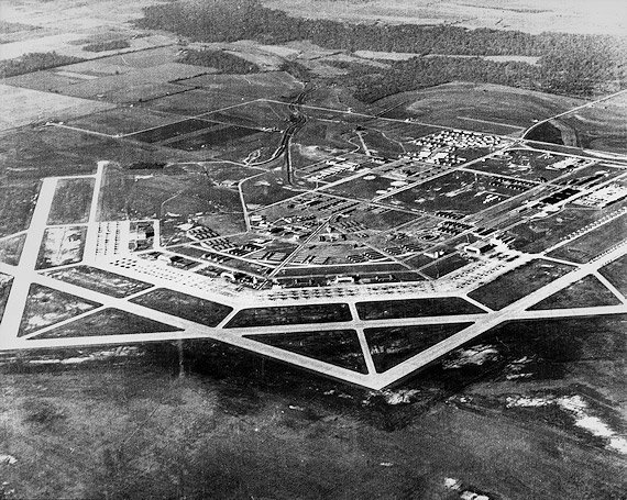 Newport Army Airfield, Arkansas, about 1945